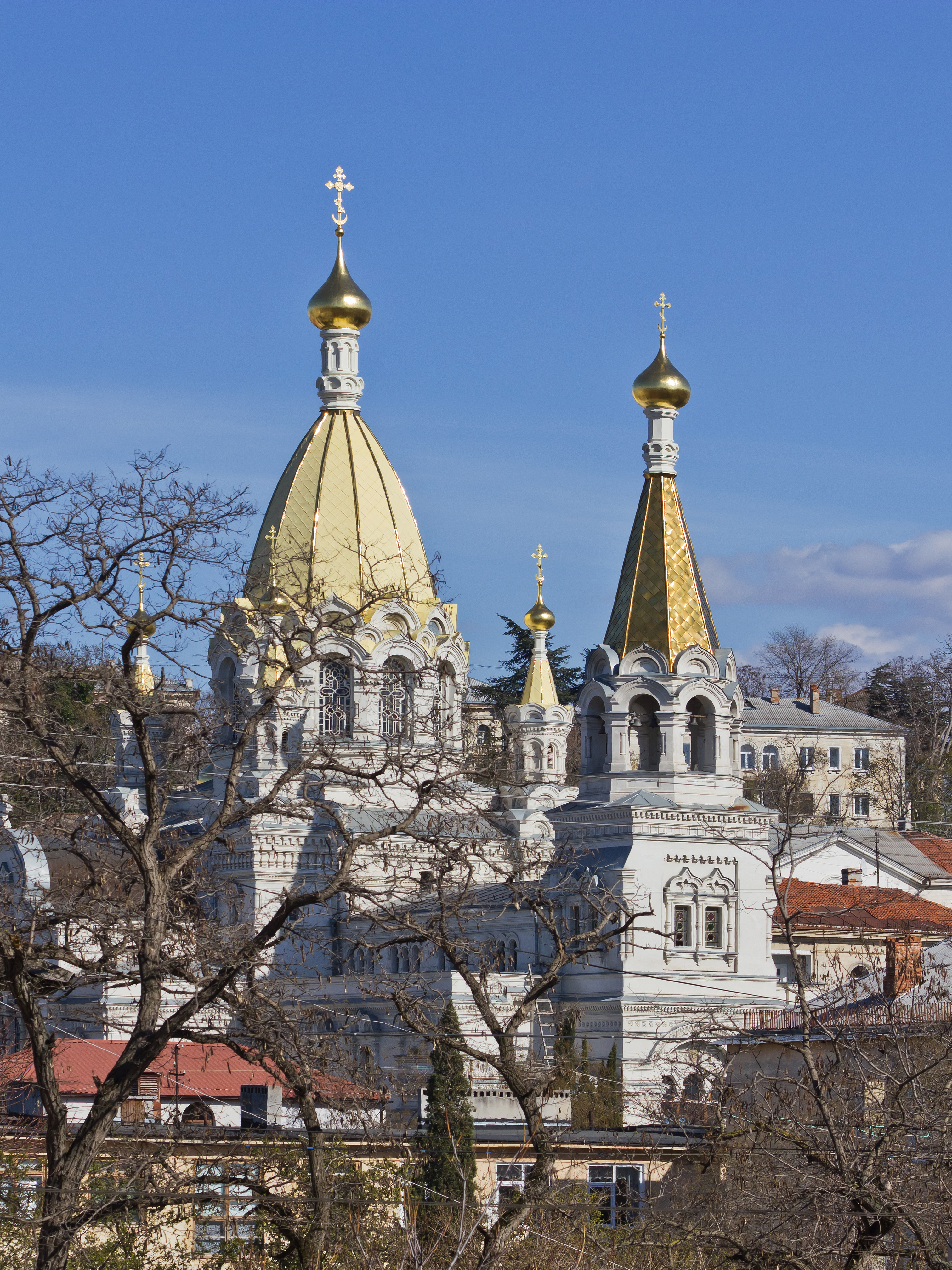 The St. Mary Intercession Cathedral in the Federal City of Sevastopol. Crimean peninsula.